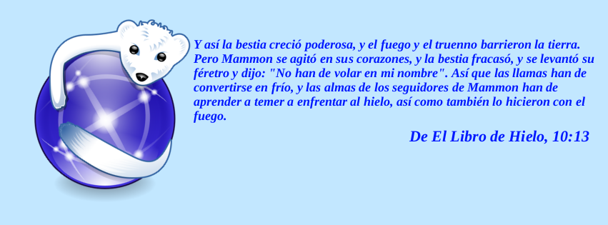 Spanish translation of the easter egg of the Iceweasel web browser to type in the adress bar: "about:iceweasel".